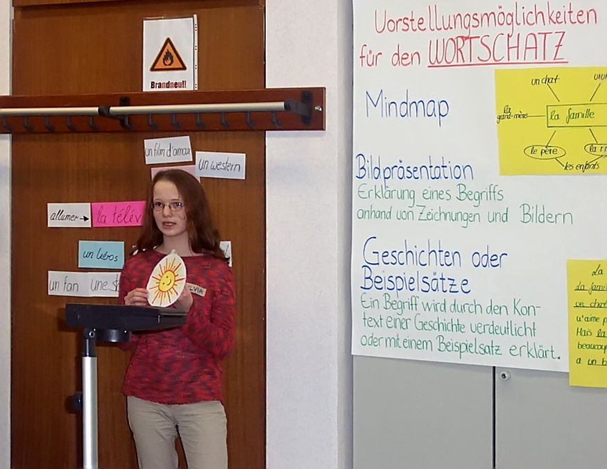 Classroom scene, student as teacher